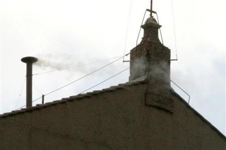 White smoke from the Sistine Chapel, signifying the election of a Pope (Benedictus XVI).